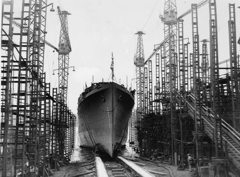 Launching of Black Swan class sloop HMIS Kistna.